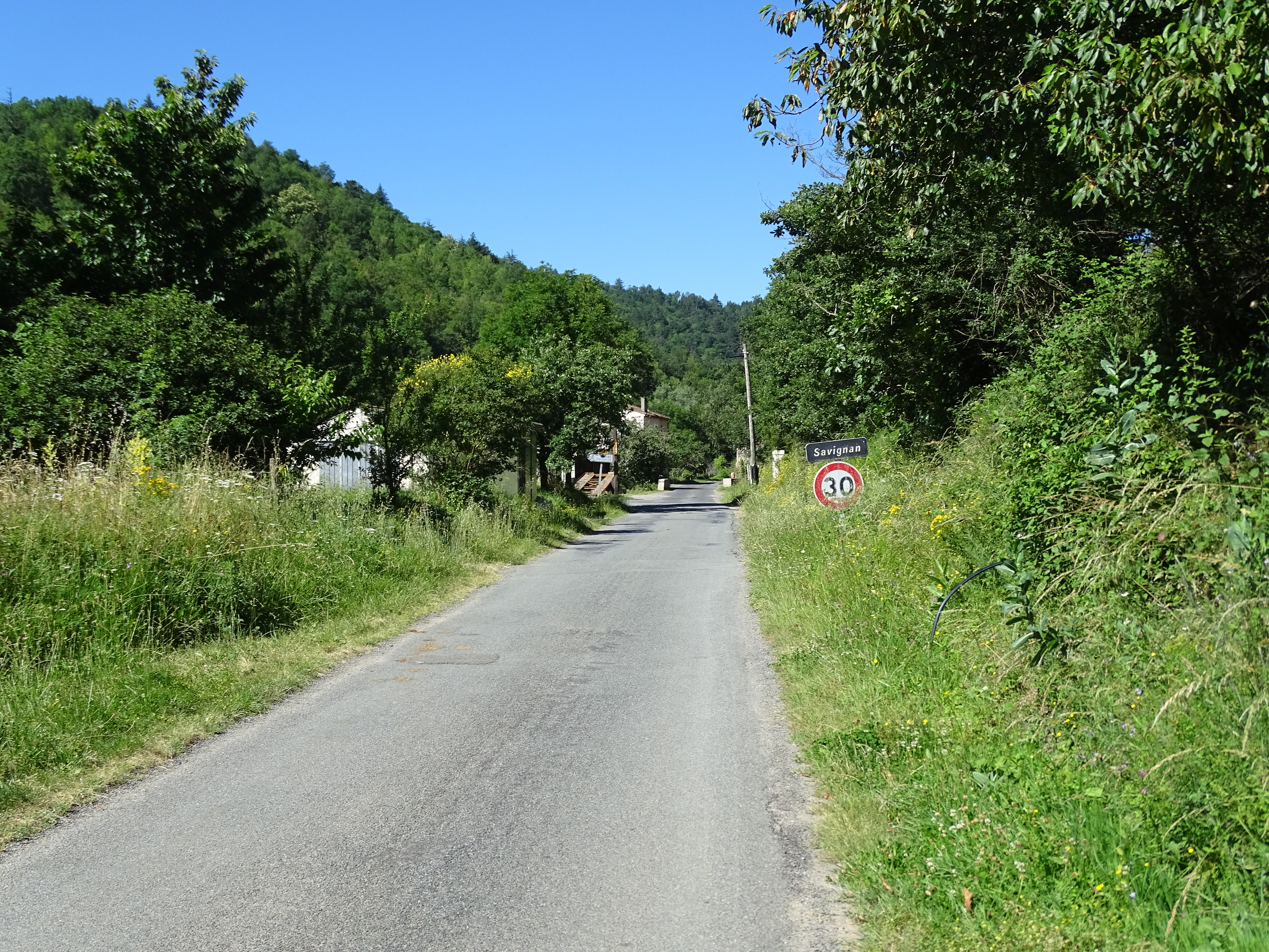 View of Savignan in Auriac, Aude, France